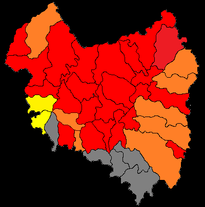 Hungarian minority in Covasna County (Romania), according to the 2011 census, by communes (red = hungarian majority over 80%, orange = hungarian majority between 50 - 70%, yellow = hungarian minority over 20%, blue = hungarian minority between 10 - 20%, grey = hungarian minority under 10%).